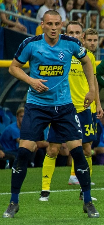 Dejan Radonjić with PFC Krylia Sovetov Samara in a game against FC Rostov.